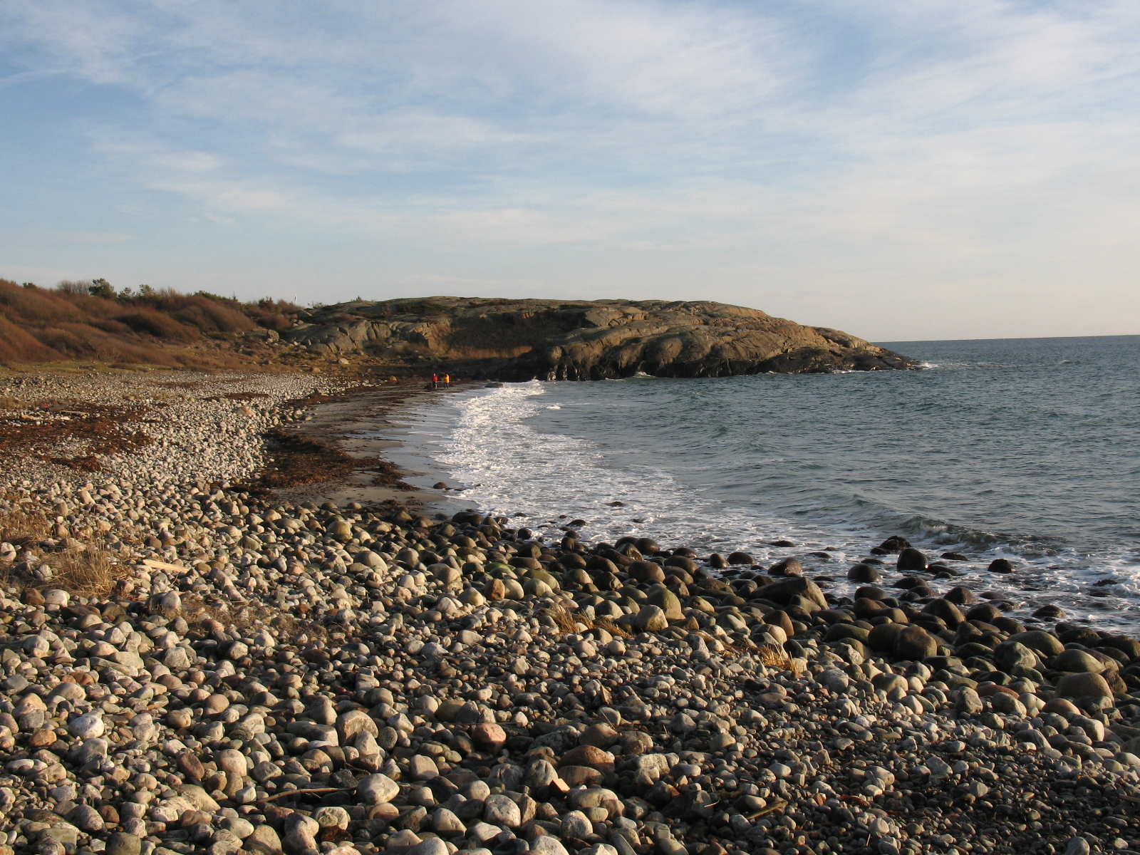 Spornes on island Tromøy, Arendal, in Raet protected area.